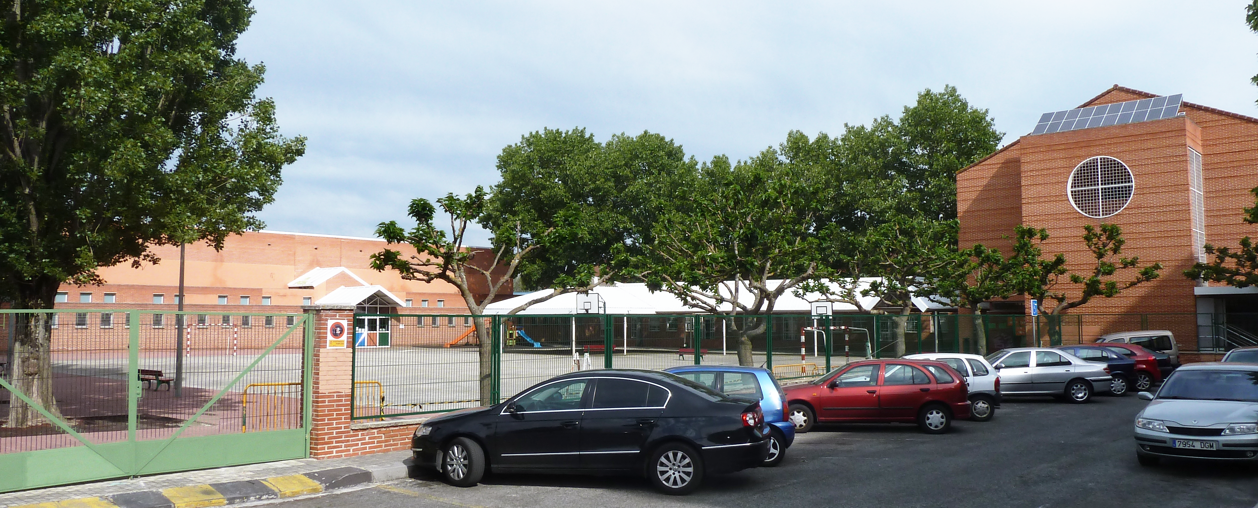 Public school under the Department of Education, Government of Navarre, which teaches second cycle of pre-school education (3-6 years) and primary. It opened in 1987 and is located in San Jorge Avenue. The school offers teaching in Basque (D). It was the first school in Pamplona/Iruña and its area who offered teaching in "modelo D".